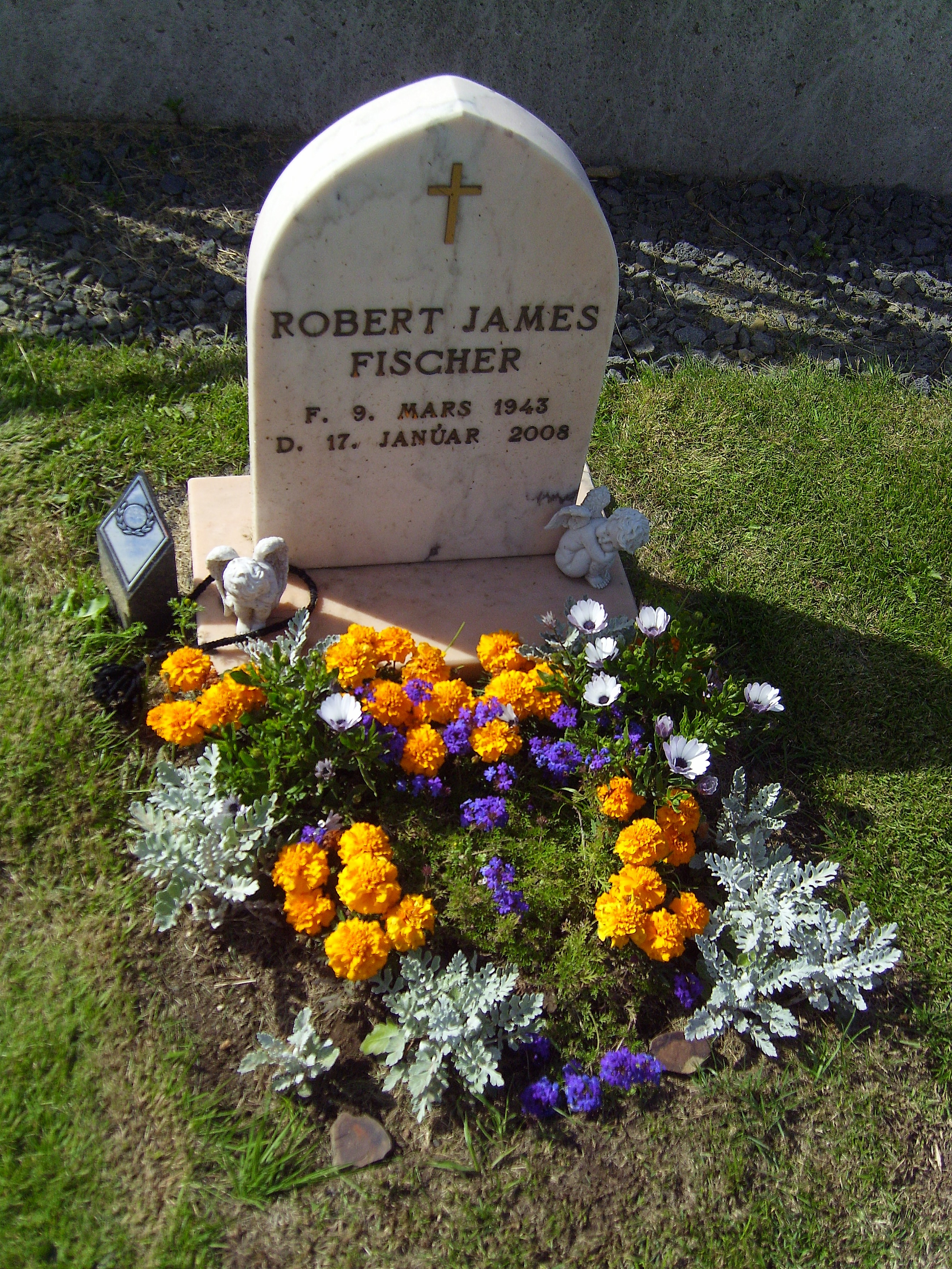 Grave of Bobby Fischer in Laugardaelir Church Cemetery, Selfoss, Iceland. The little black statuette at the left was not permanently attached to the ground. Hooked around the angel on the left is an Orthodox prayer rope.